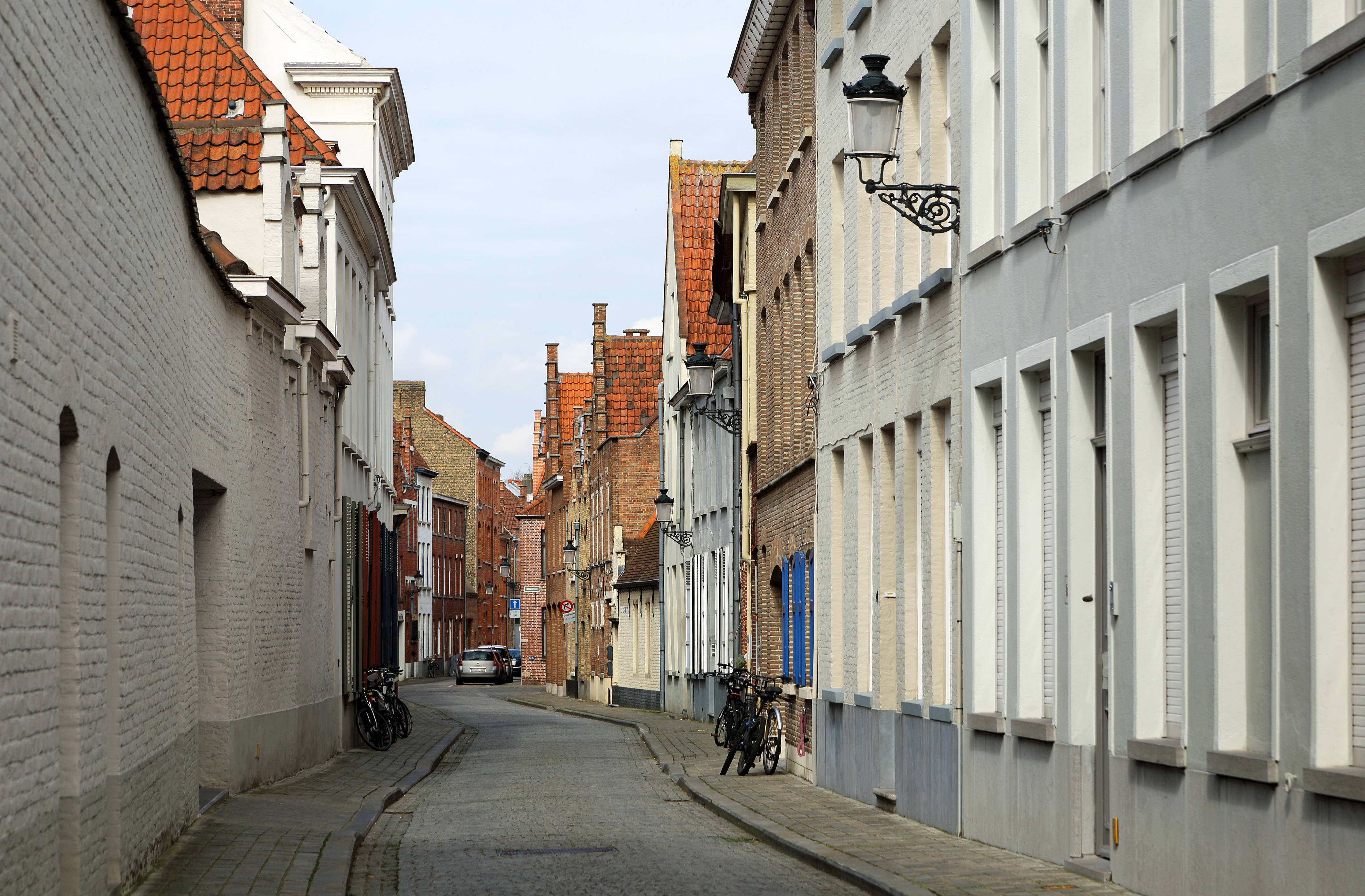 Bruges (Belgium): Rozendal (street)